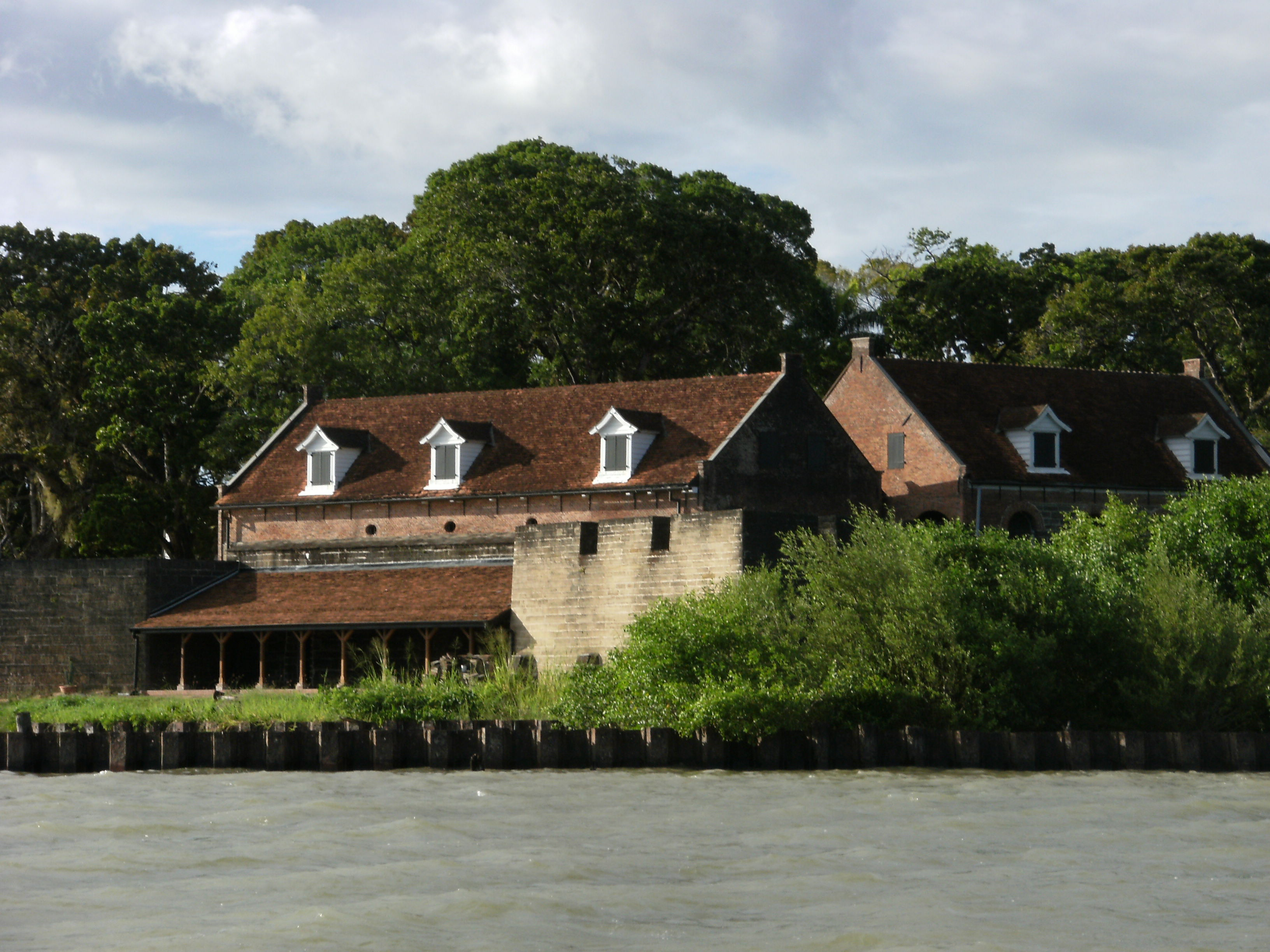 Fort Zeelandia.